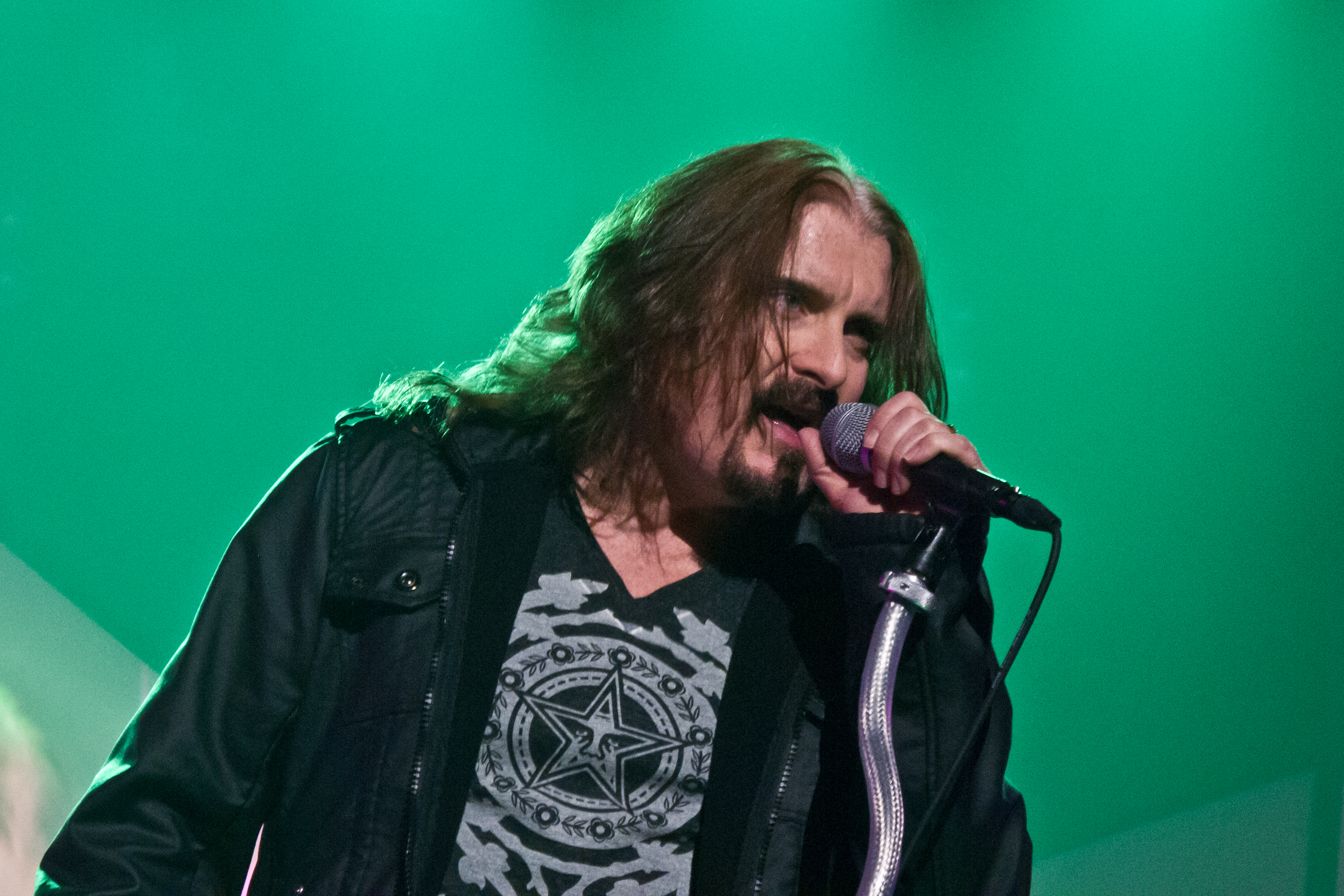 Dream Theater's vocalist, James LaBrie, in concert in 2012.